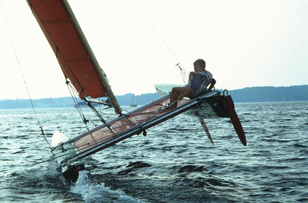 Tornado Catamaran image Uwe Kils.